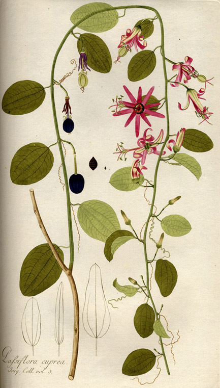 Passiflora cupraea